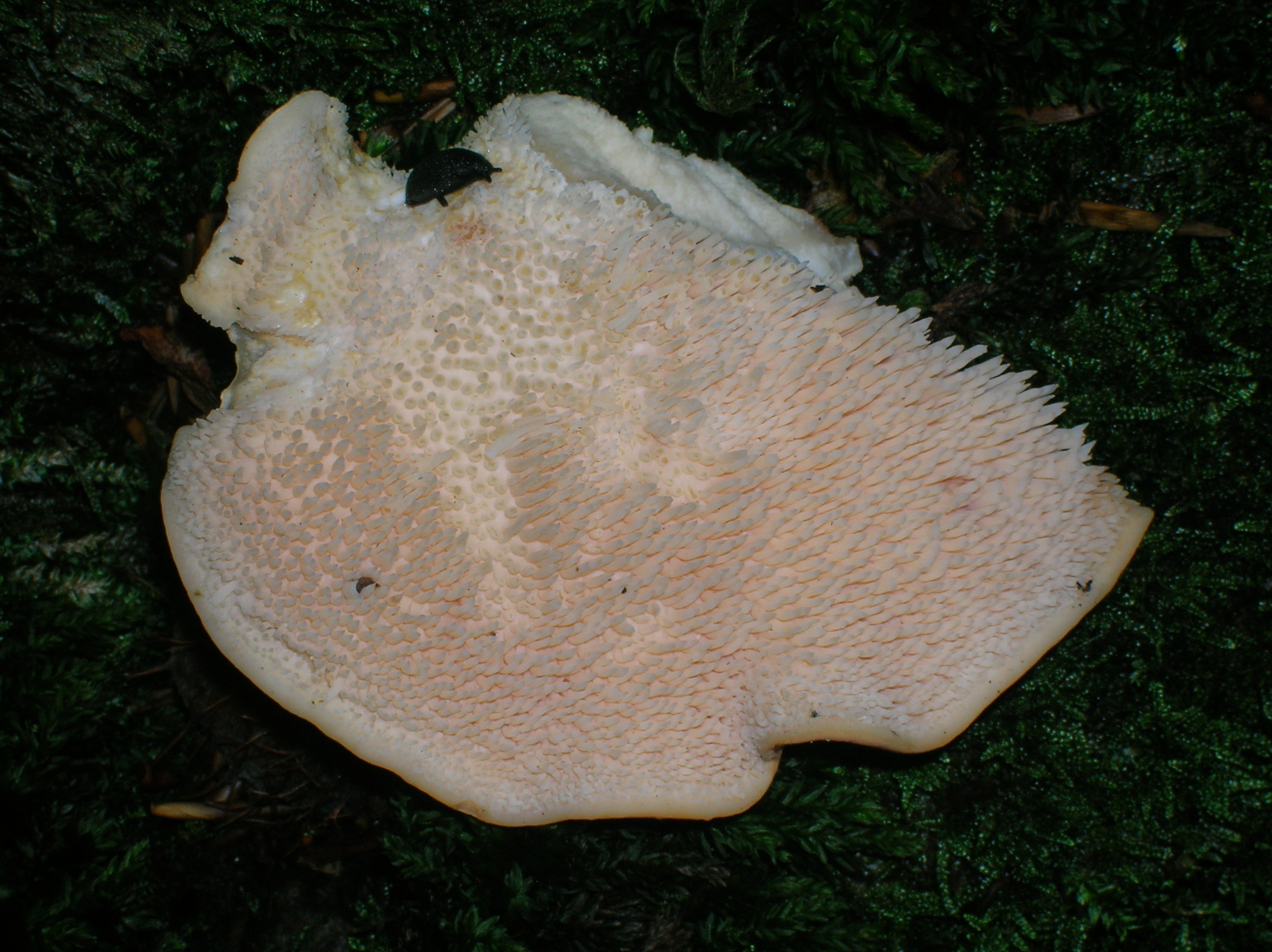 Detail of the Hedgehog Fungus (Hydnum repandum) in Giffordland Glen beechwood